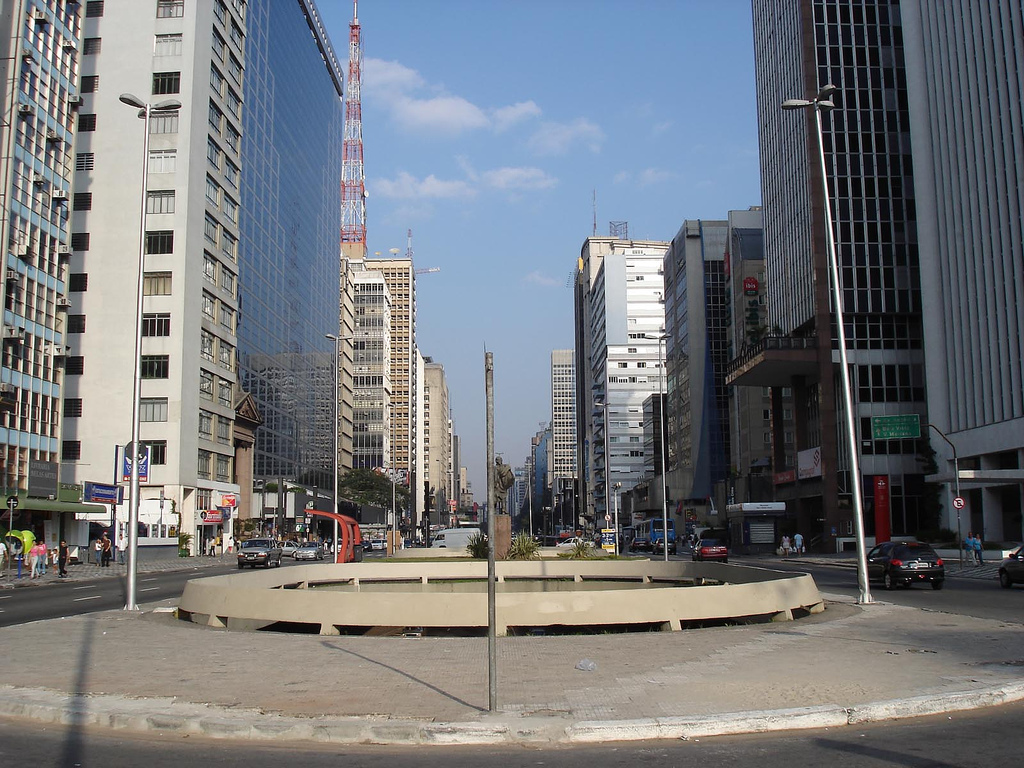 Avenida Paulista in Sao Paulo, Brazil